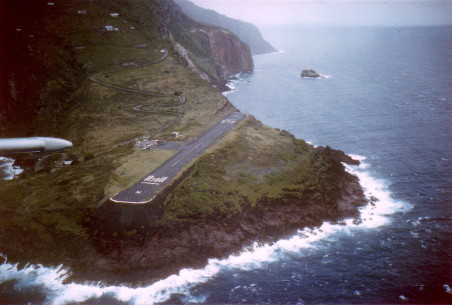 Subject: Juancho Yrausquin Airport, Saba, Netherlands Antilles. Runway length: 1,312 ft, world's shortest commercial airport. Photograph by: Pia L, June 1997 Image description: Approach in STOL equipped PA-23-250 Aztec. The Runway "X" designates the airport as permanently closed to all air traffic except traffic officially permitted to operate into Saba on waivers obtained from the Netherlands Antilles' Civil Aviation Authority. Pia 21:48, 1 October 2006 (UTC)